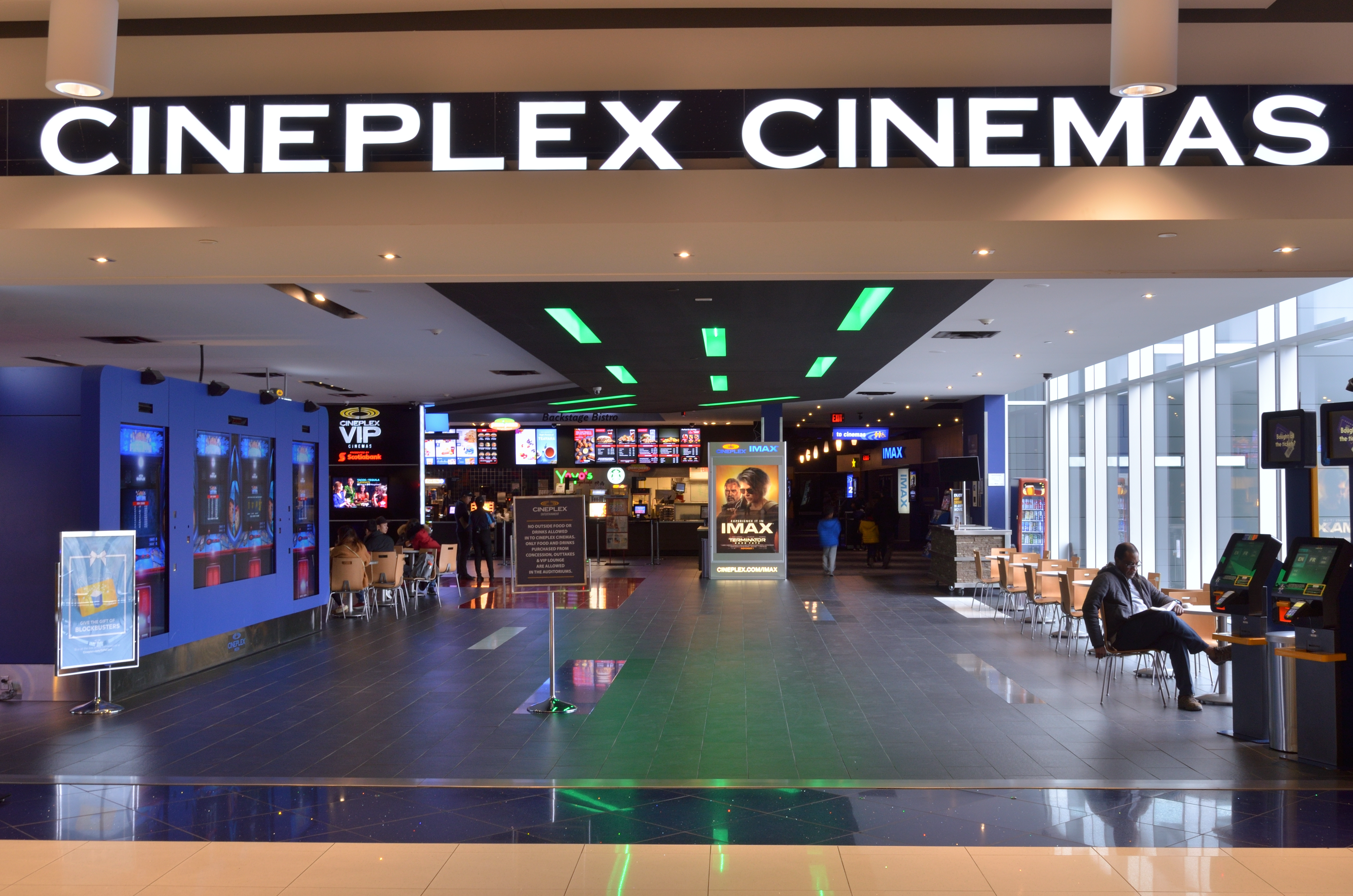 Cineplex Cinemas Markham and VIP - Address: 179 Enterprise Blvd #169, Markham, ON L6G 0E7